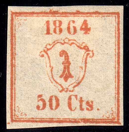 Switzerland Basel 1864 police revenue 50c - 5